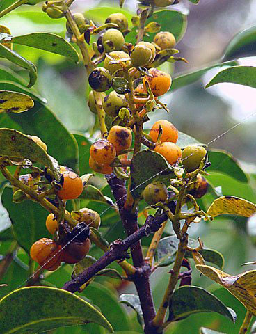 Fruit of a mountain hemiparasite in western Panama. Said to taste like mango. In context at